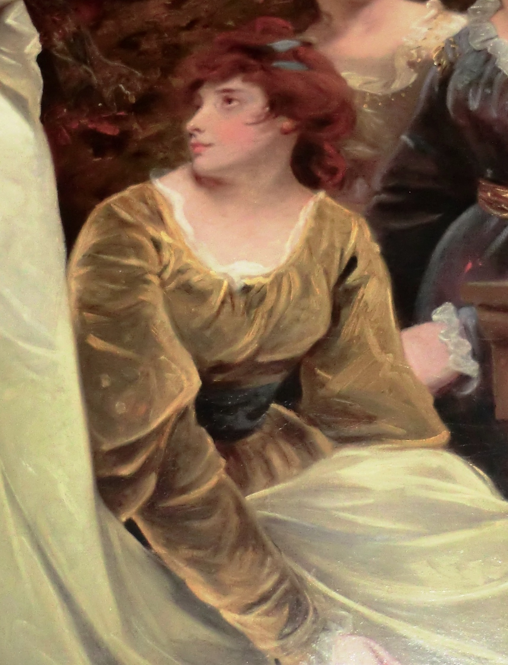 Lady Asgill was Lady of the Bedchamber to Frederica, Duchess of York